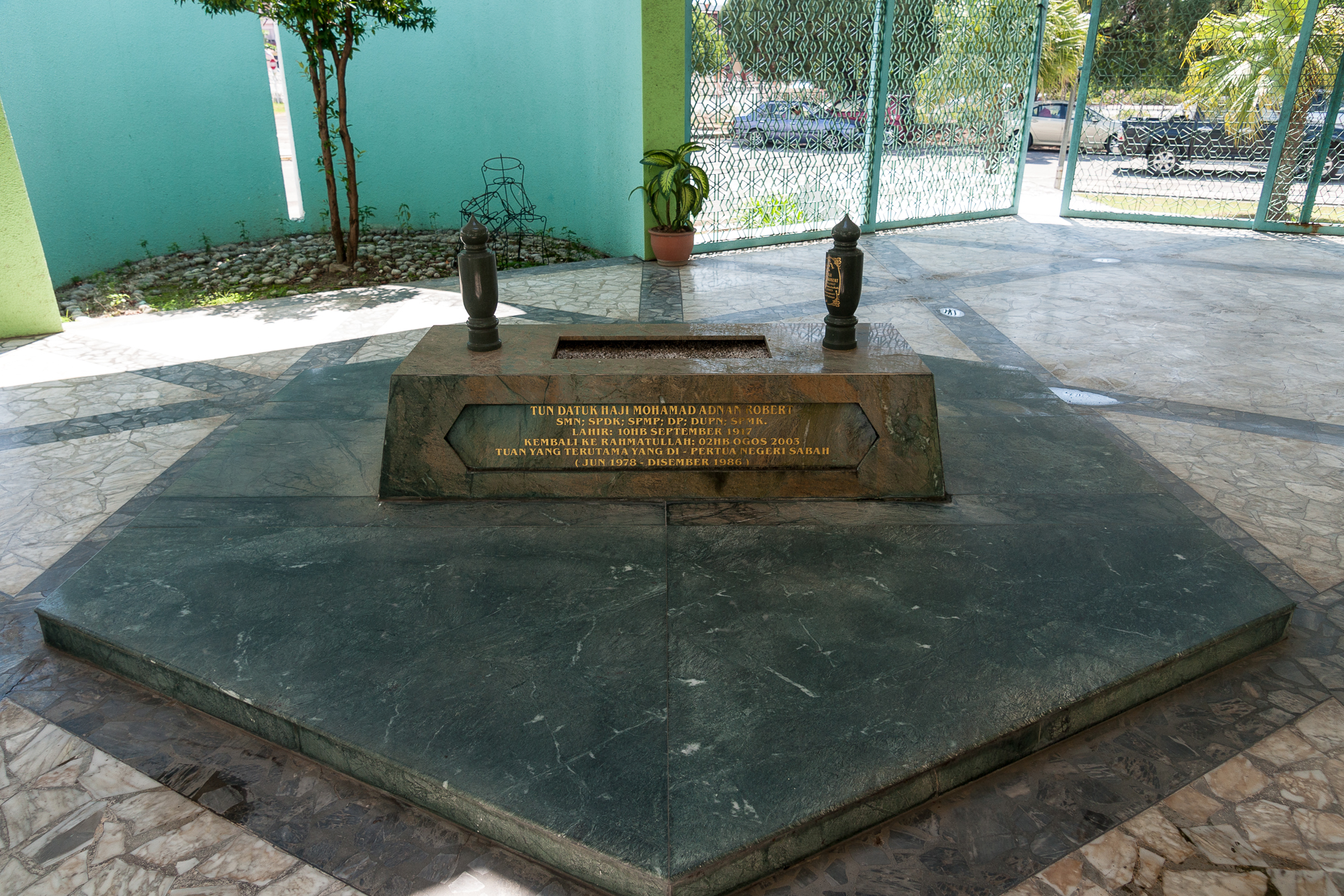 Kotas Kinabalu, Sabah: Tomb of TYT Adnan Robert in the Sabah State Mausoleum at the northwest corner of Sabah State Mosque